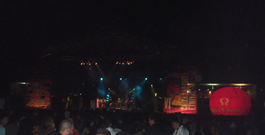 Photo of Etnival festival in Girona, Spain